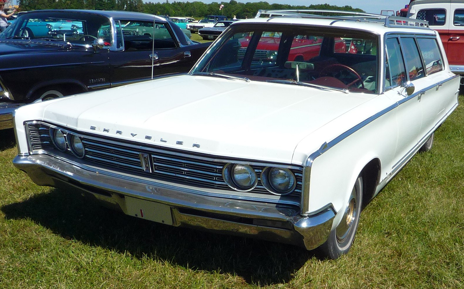 White 1966 Chrysler Newport Town & Country at the 2008 Power BigMeet, Sweden